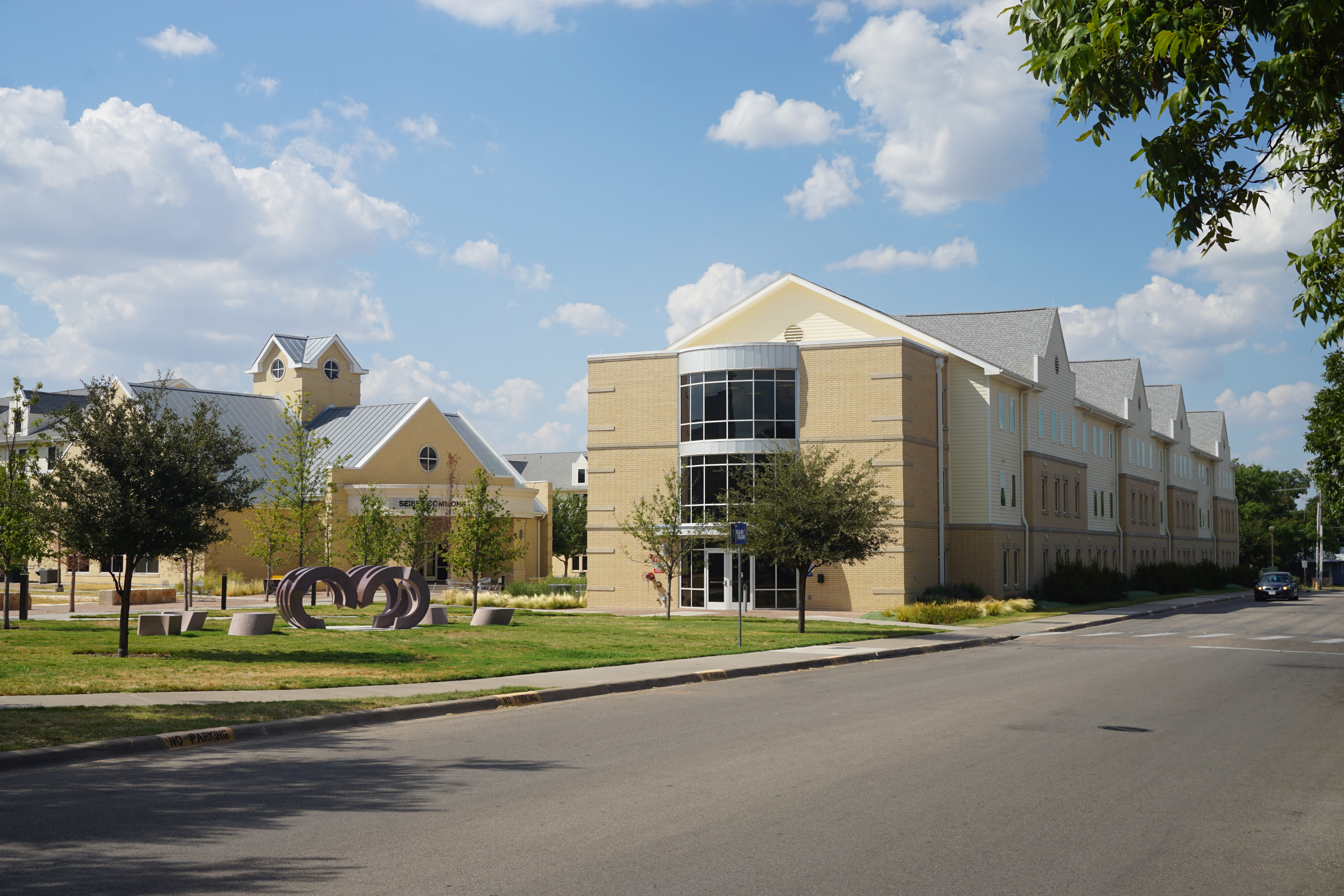 Centennial Village on the campus of Angelo State University in San Angelo, Texas (United States).